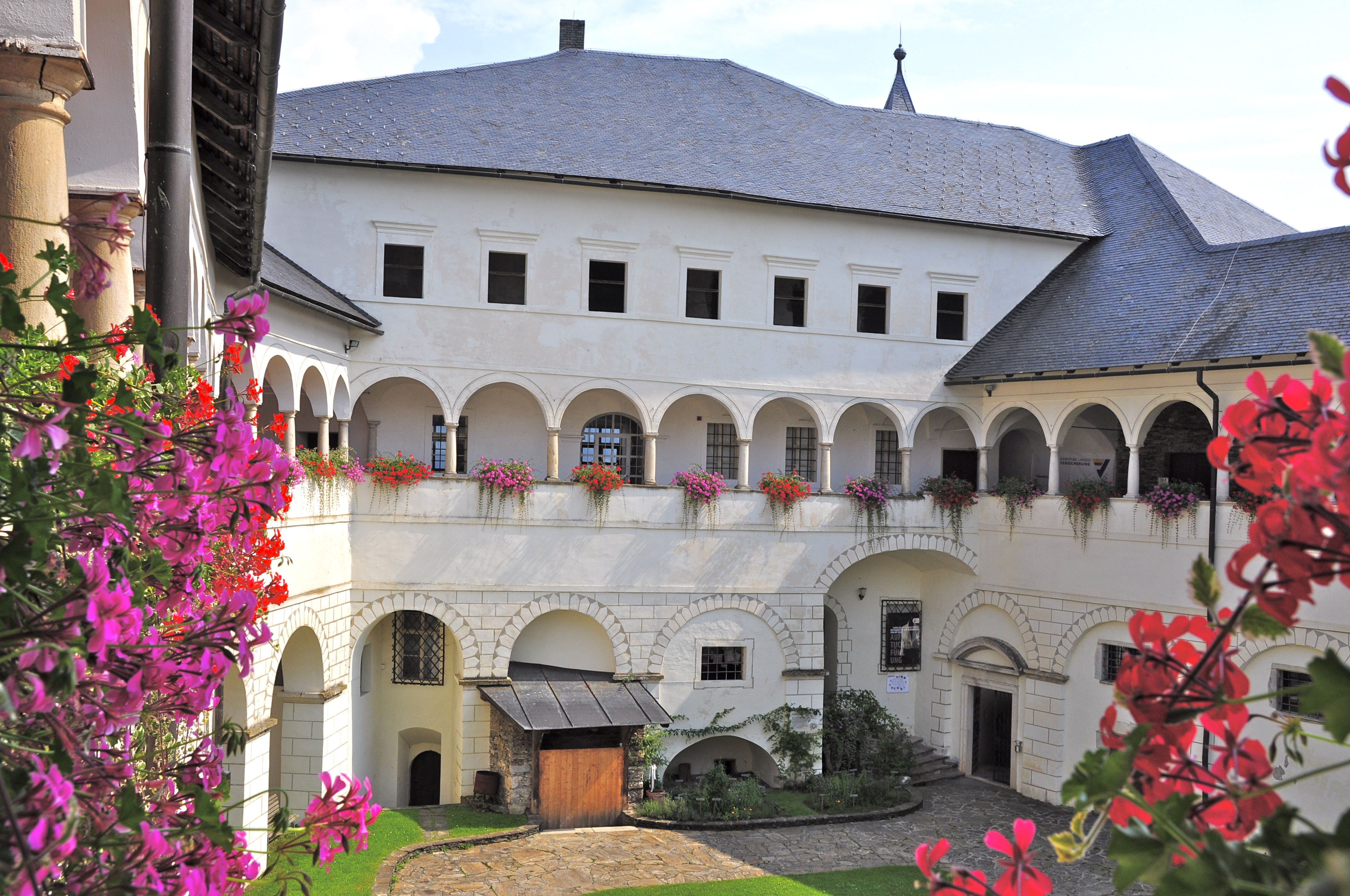 Arcade yard of the former bishop`s castle, city Strassburg, district Sankt Veit an der Glan, Carinthia, Austria, EU